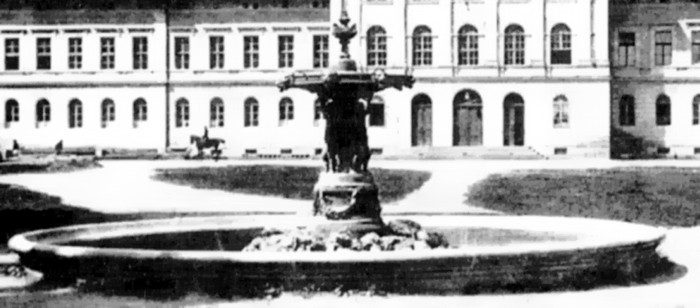 «Impudica» fountain in Braşov. Built in 1897, it has been placed in front of Andrei Şaguna gimnasium. Demolished in 1920.